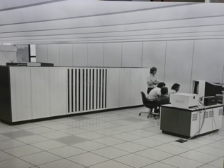 Second production model (P2) of the Amdahl 470V/6 mainframe computer on the 3rd floor of the Computing Center Building on the University of Michigan, Ann Arbor, Michigan, USA. I/O Channels, CPU, and main storage in the background, console with performance monitor in the foreground. John Sanguinetti (UofM) is standing. Ed Cardinal (Amdahl) is sitting closest to the display console. The names of the two other individuals aren't known, but they are most likely Amdahl staff. This computer is now held by the Computer History Museum in Silicon Valley, CA (X436.84A).